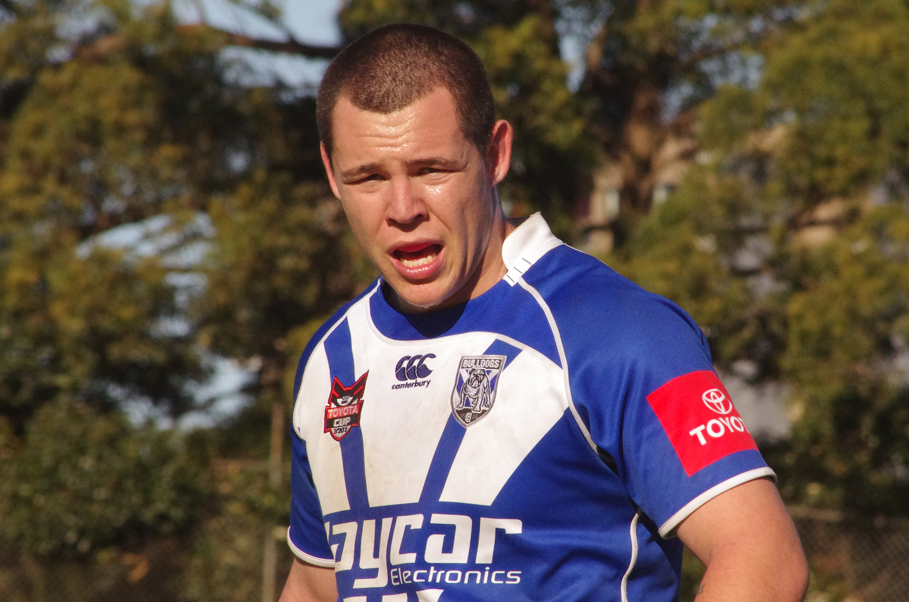 David Klemmer